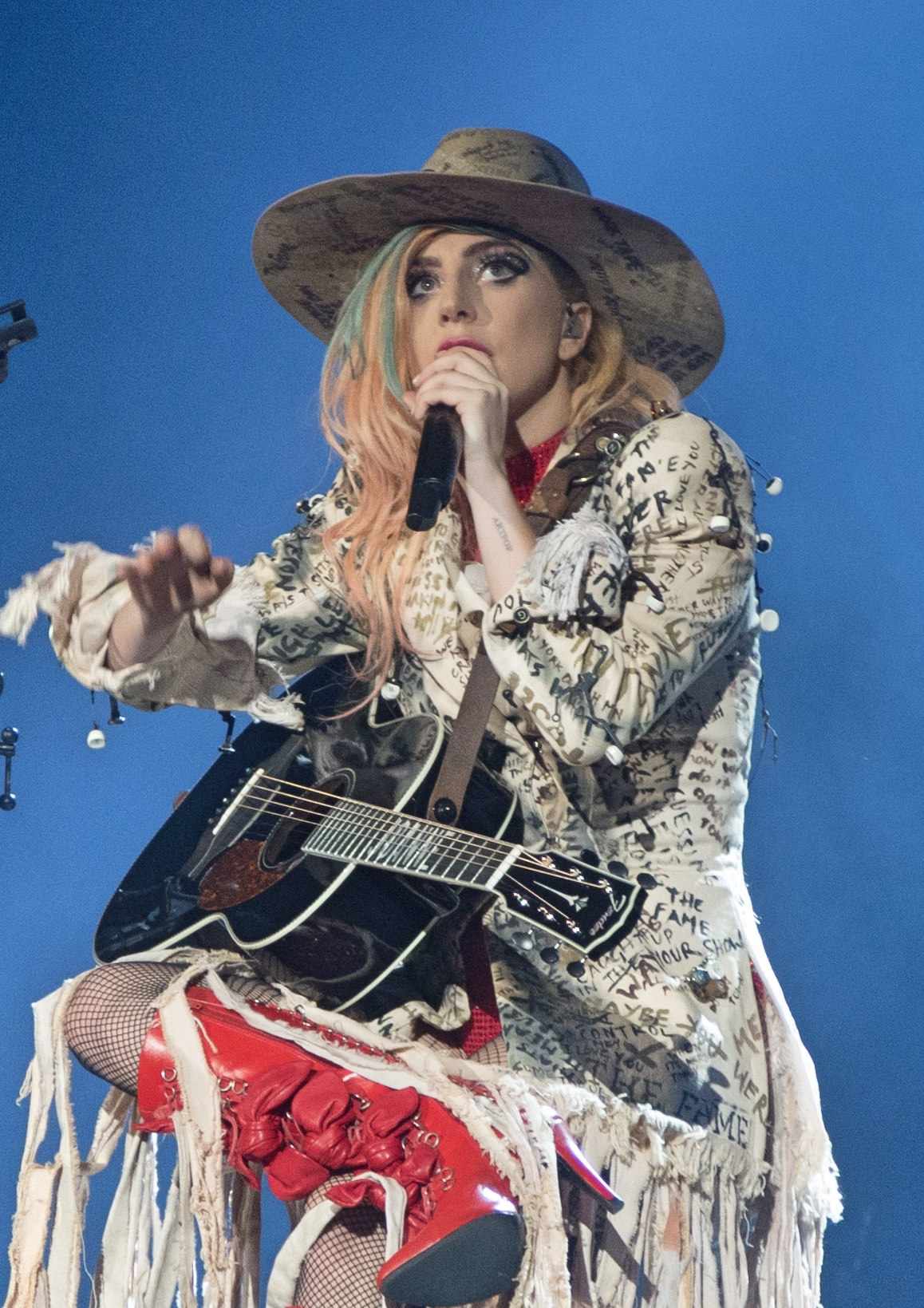 Lady Gaga performing "Joanne" on the Joanne World Tour